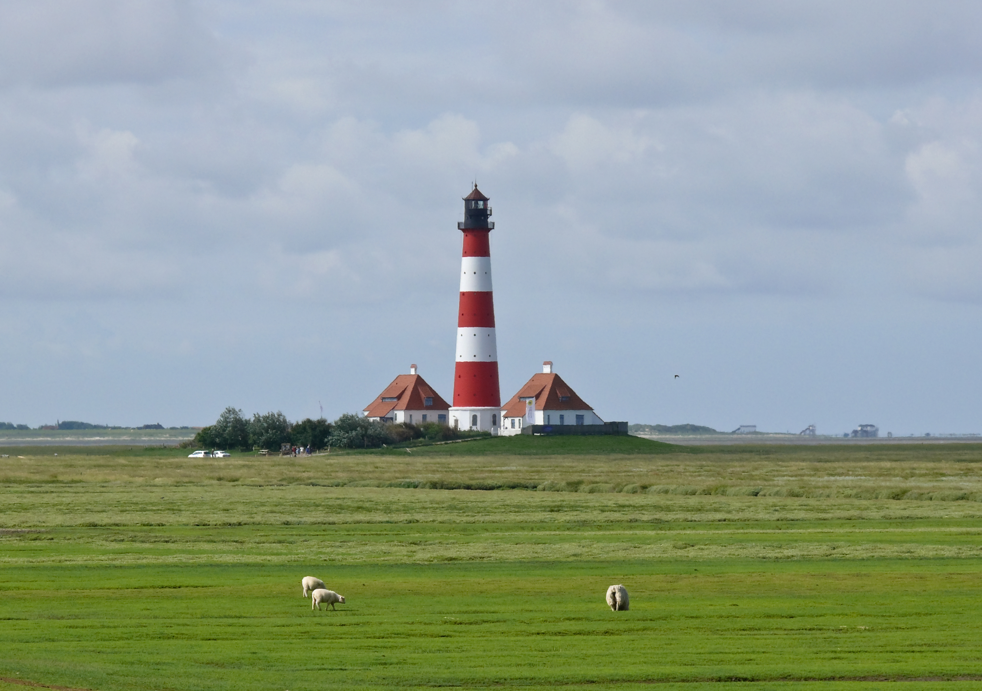 Westerheversand lighthouse